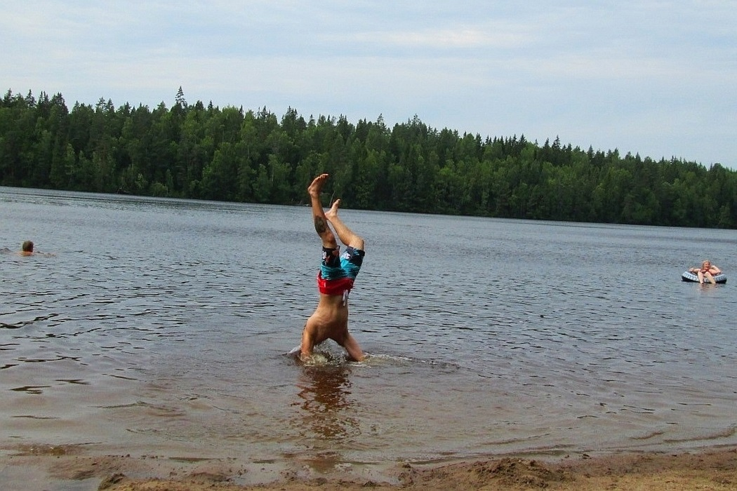 Summer at the beach of forest lake